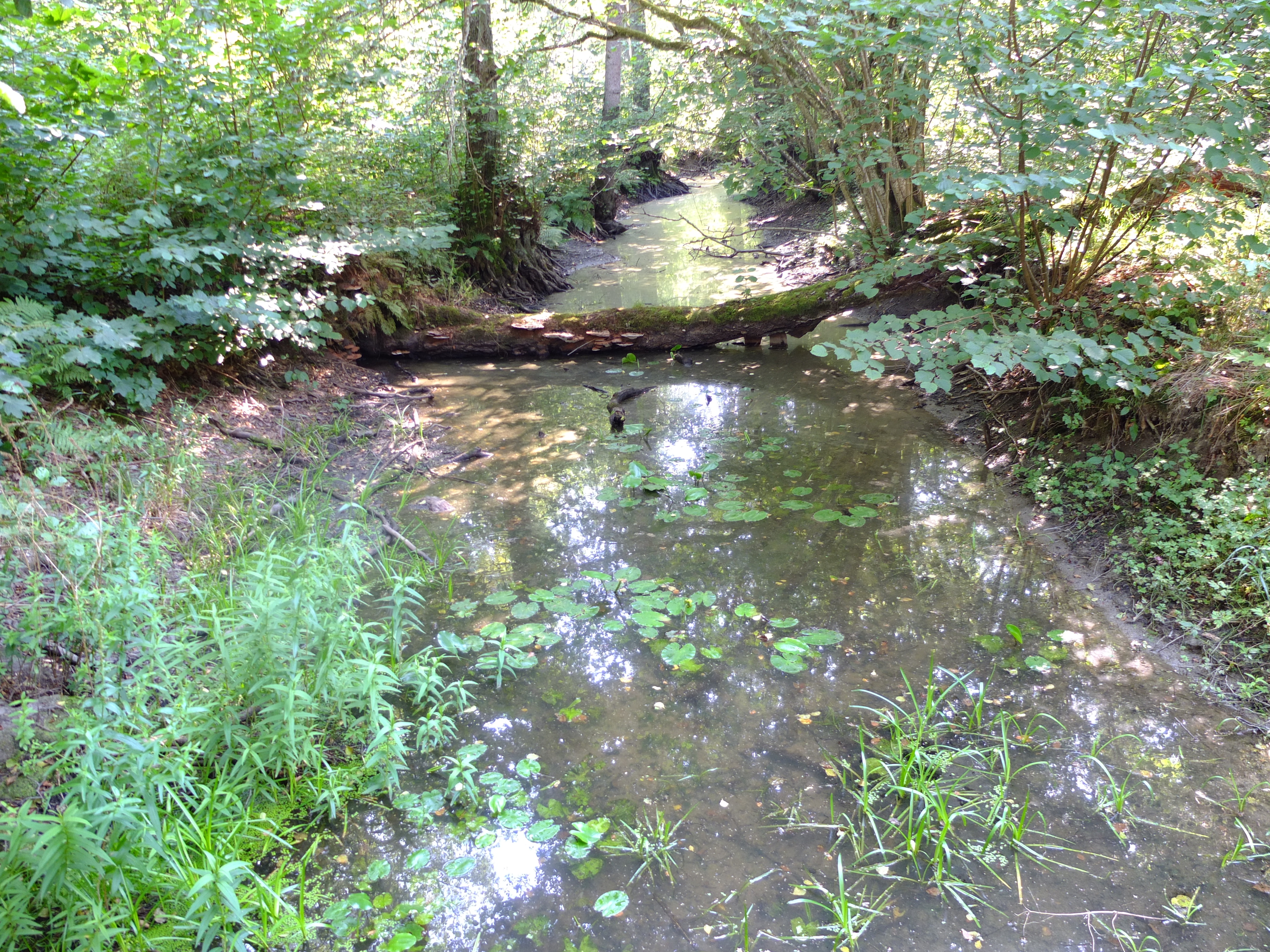 Karl IX:s canal at Skjulsta, Eskilstuna, Sweden